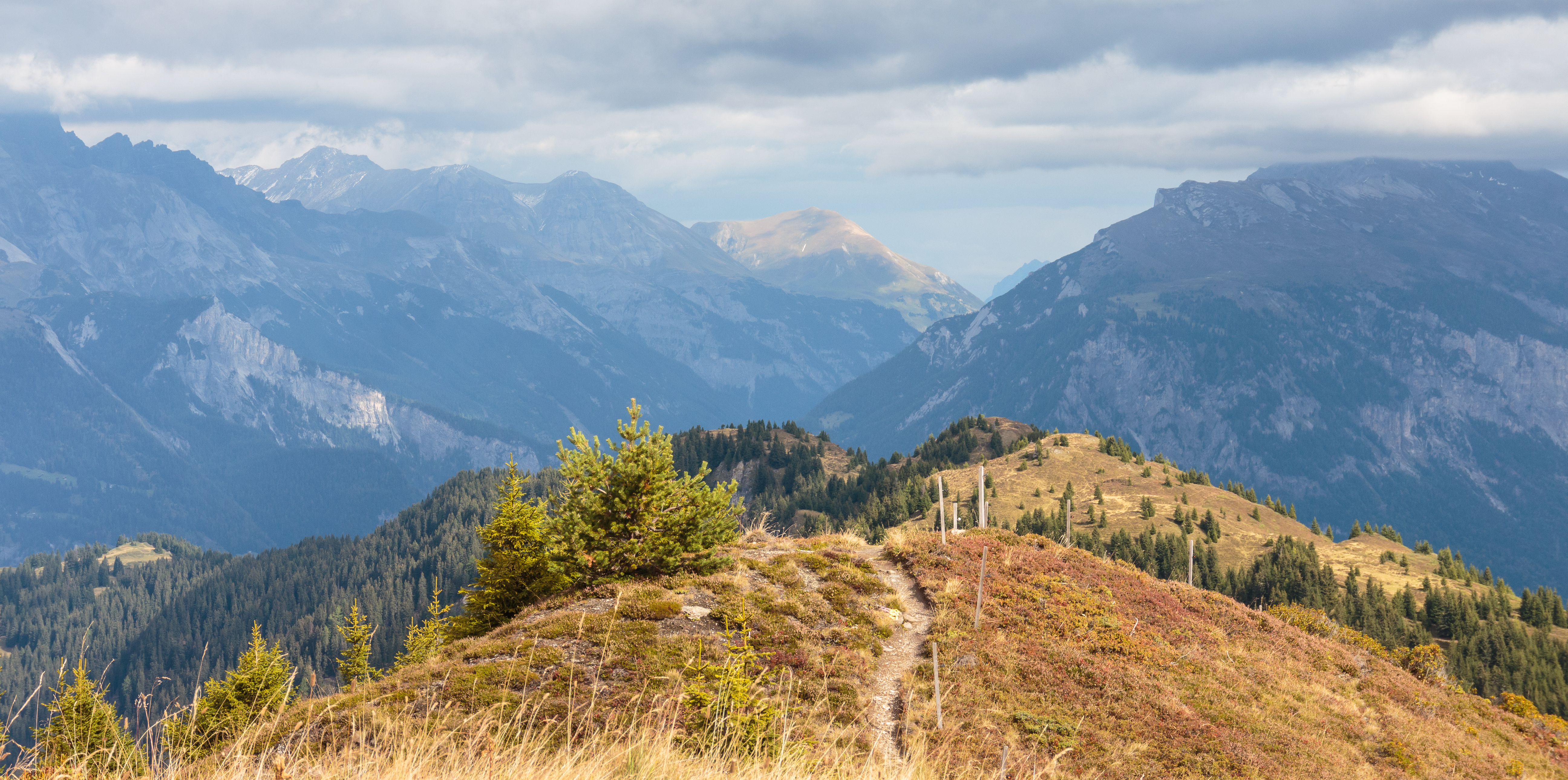 Mountain trip from Sarner Alp (1853 meter) via Präzer Höhi (2119 meter) to Tguma (2163 meter). Crest dil Cut and Crest Ault as seen from Präzer Höhi. There is a lot of rain coming.